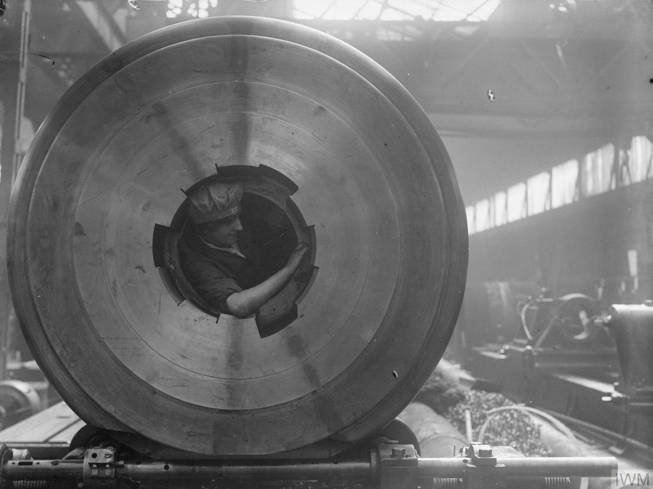 IWM caption : "A female worker cleans the rifling of a 15-inch gun after being lifted inside the barrel in the Coventry Ordnance Works during the First World War".